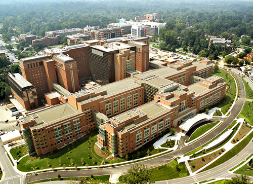 The NIH Clinical Center occupies Building 10 on the NIH Bethesda campus. It is the nation’s largest hospital devoted entirely to clinical research.